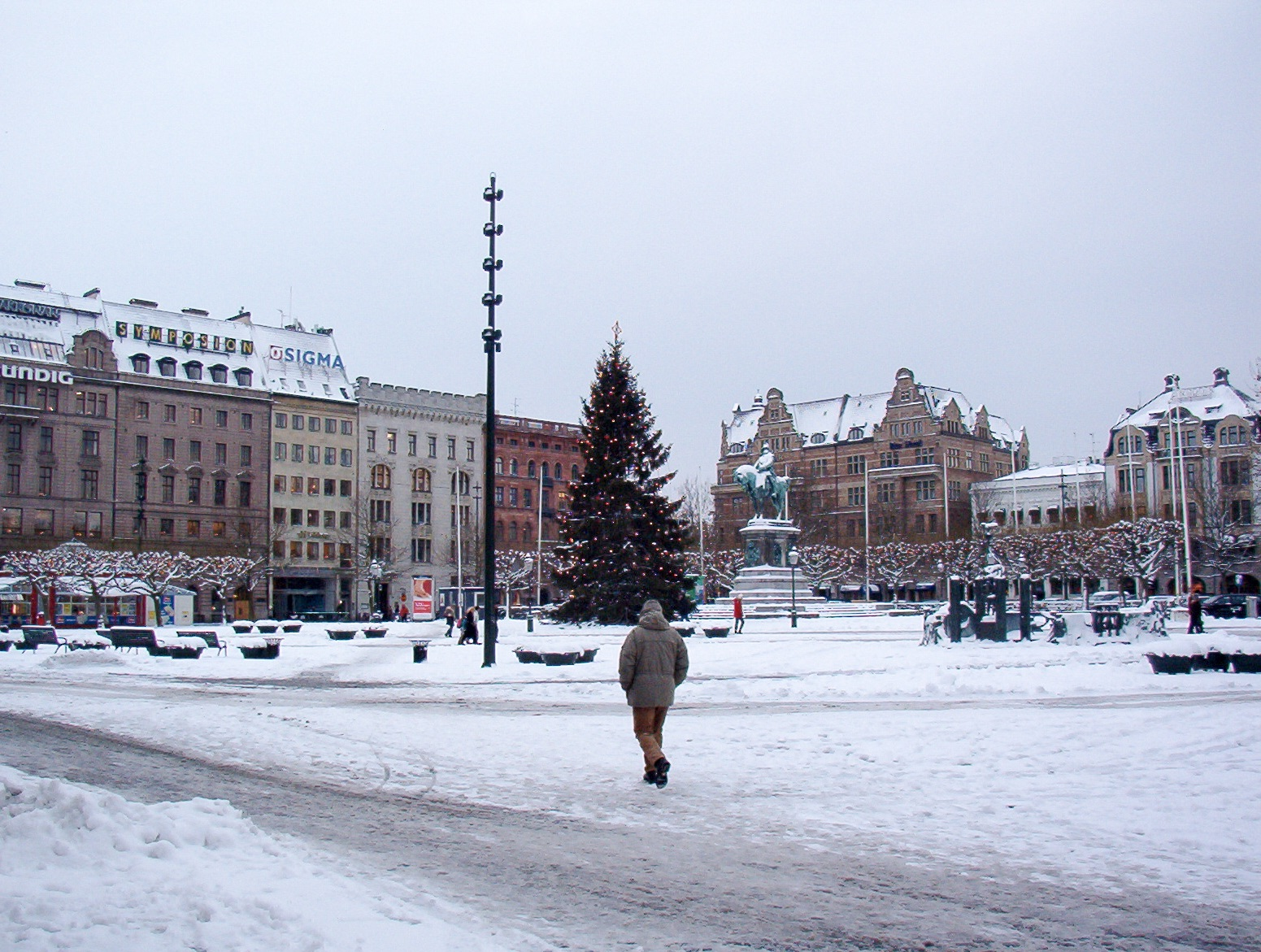 The Stortorget in Malmö, with the status of the King on his horse. Taken from the City Hall.